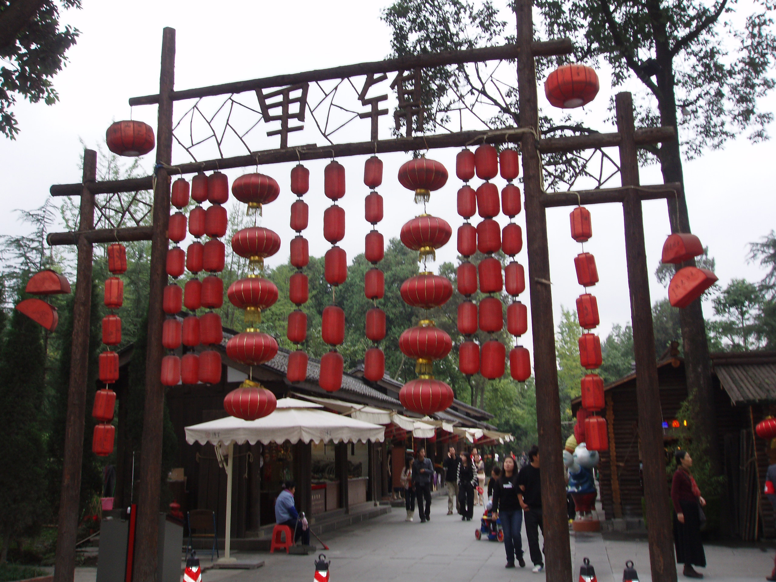 Jinli commercial street in Chengdu,Sichuan,China